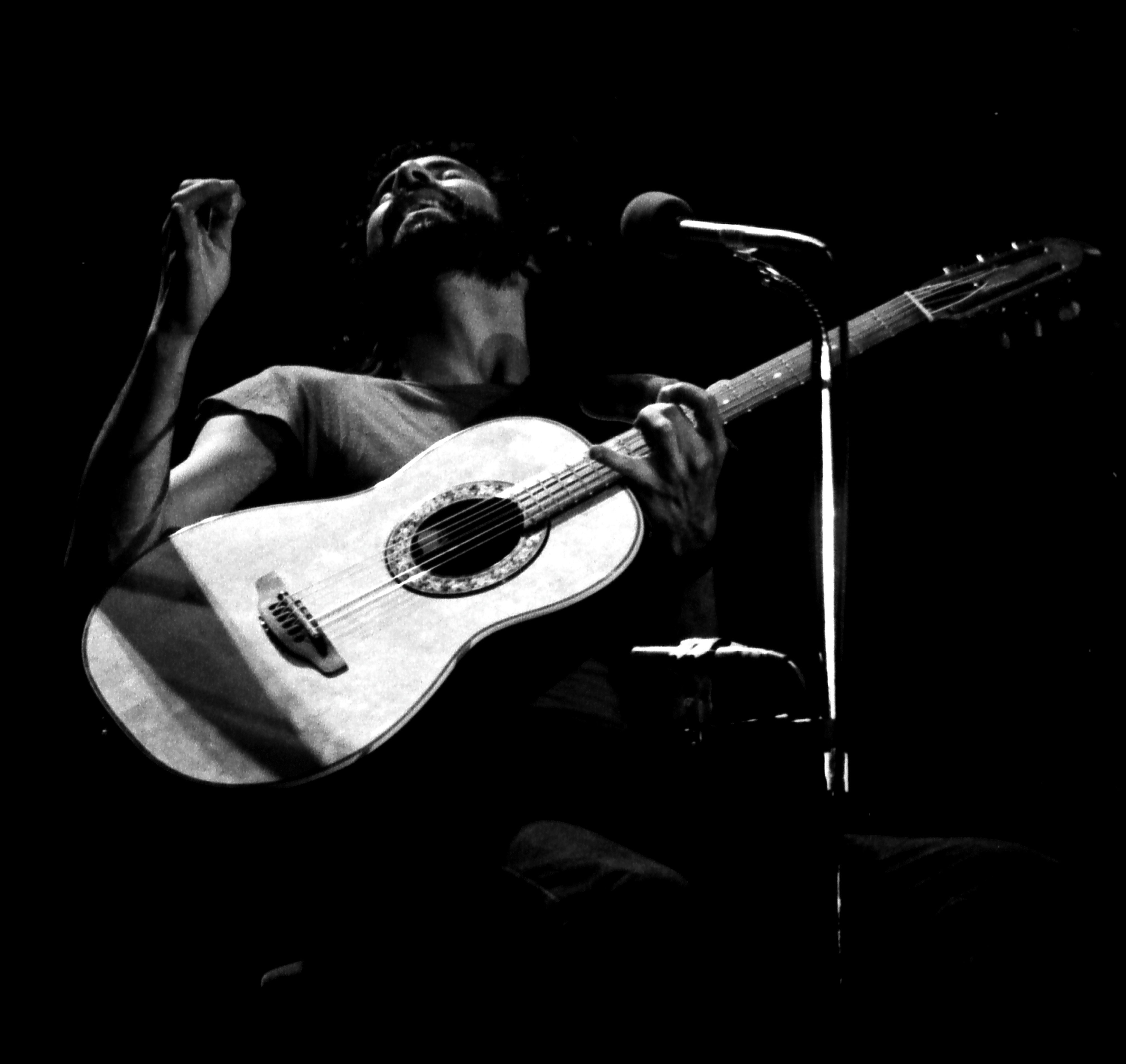 (Then) Cat Stevens in Boeblingen, Germany in 1976. My first concert. A lucky shot if there ever was one. His expression kind of defines "joy" for me. 16 Sep 07 -- I found the original negative in the box of wonder. So I scanned it and replaced the scanned photograph of the shot. Enjoy. Hepe